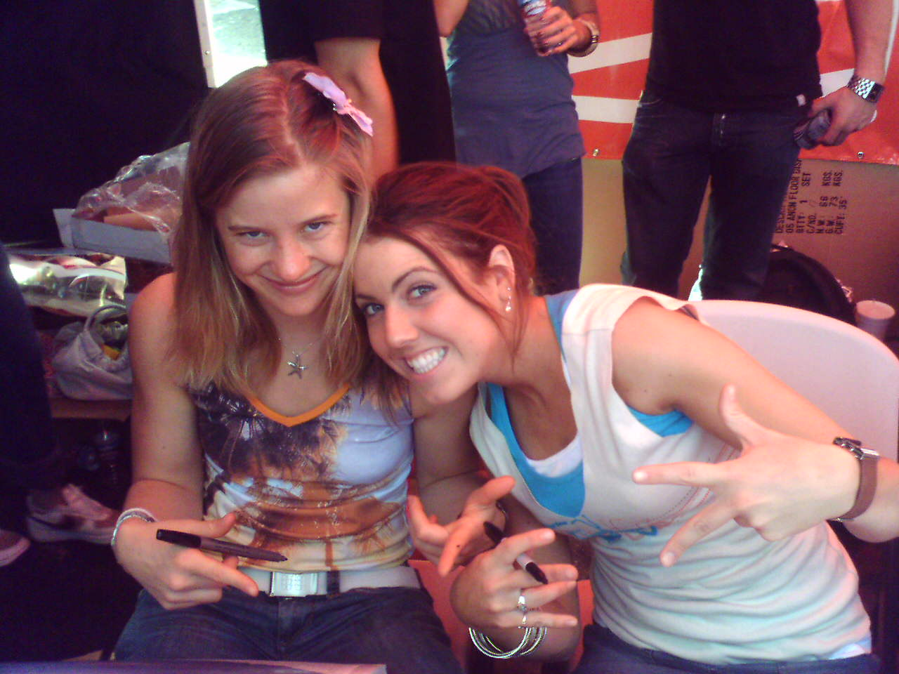 Me without my camera. Luckily my phone can take pretty good pictures. Hannah & Molly were kind enough to take a break from signing to smile for the phone, sweet! Taken with Siemens S66.